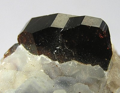 Uvite, Quartz (Var.: Chalcedony) Locality: Serra das Éguas, Brumado (Bom Jesus dos Meiras), Bahia, Northeast Region, Brazil (Locality at ) Size: 4.8 x 4.0 x 3.2 cm. A REALLY unusual uvite specimen with a completely different appearance from the usual uvite/magnesite specimens from here. You have a lone, very lustrous wine-red uvite crystal and running right up to it is a field of drusy chalcedony that has actually covered up some other uvite crystals. Ex. Jactat Collection.